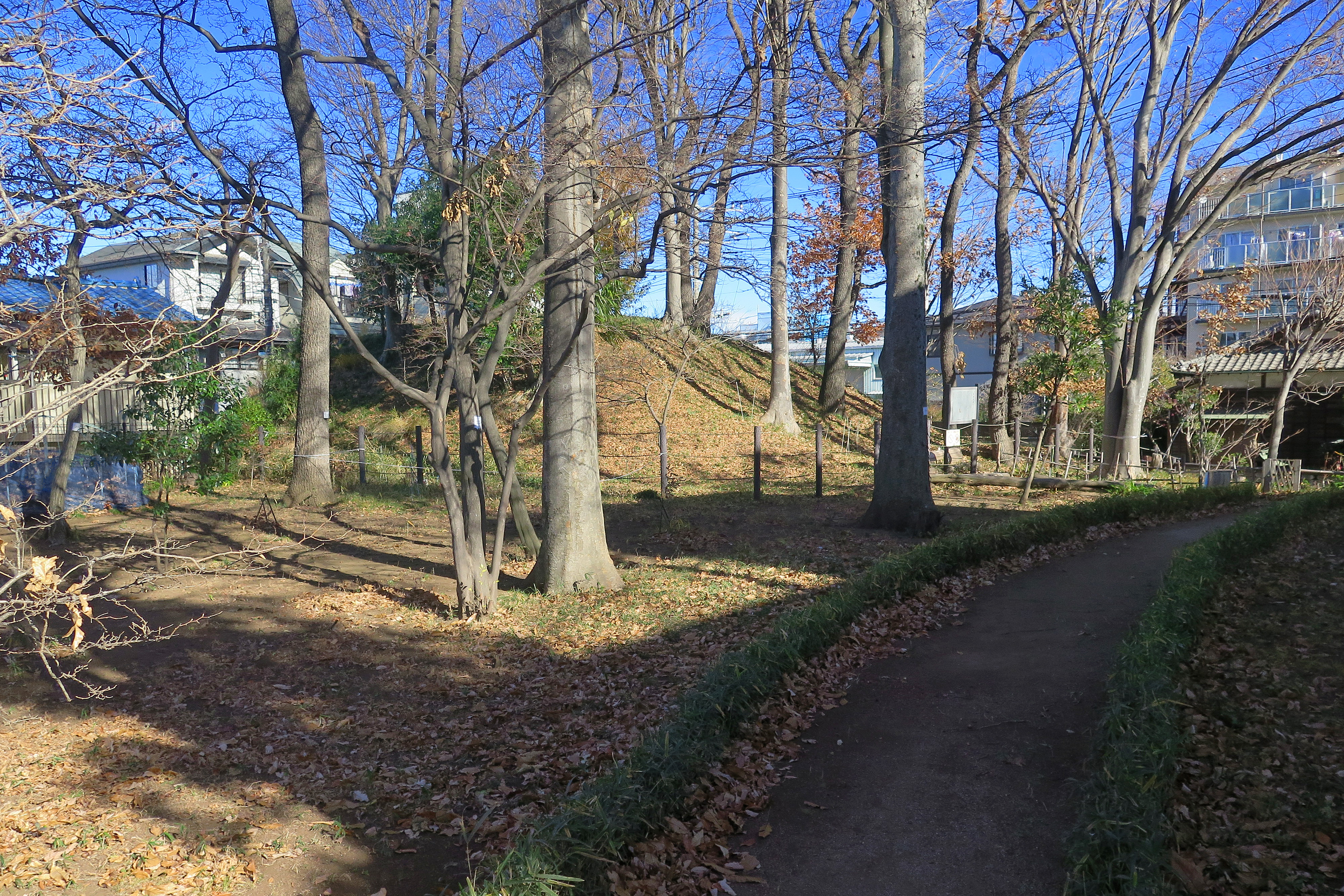 Honmoku Kofun Sakura Ward, Saitama-city, Saitama, Japan.